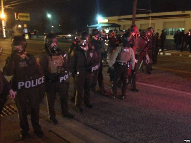 Unrest on the streets of Ferguson after a grand jury decided not to indict police officer Darren Wilson in the death of Michael Brown, Ferguson, Missouri, Nov. 24, 2014. (Kane Farabuagh/VOA)